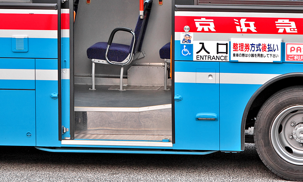 Center door and step of Nissan Diesel Space Runner JP